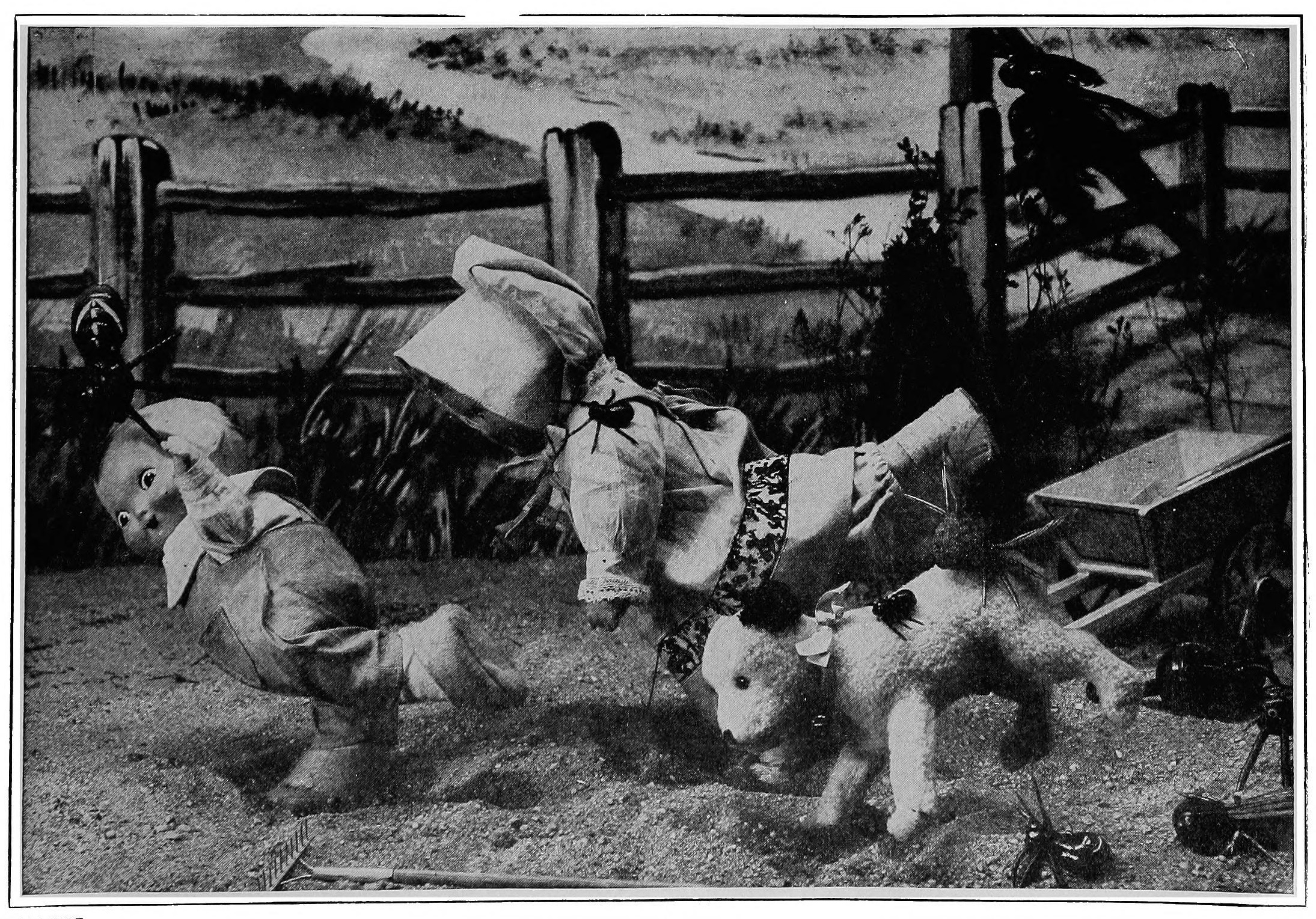 "But Flossie and Happifat and their woolly dog are attacked by vicious insects and have a sad time at their farming."